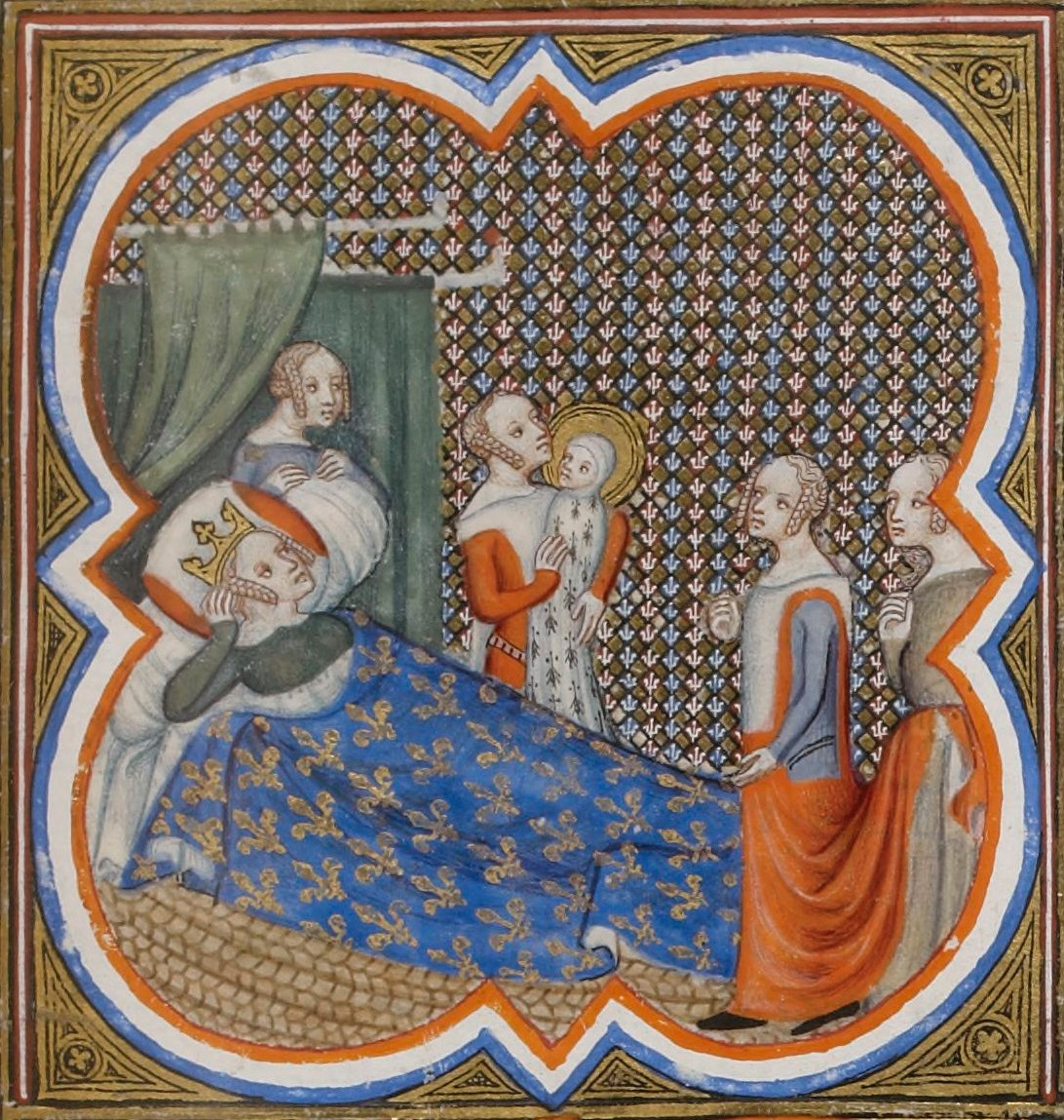 Birth of Saint Louis